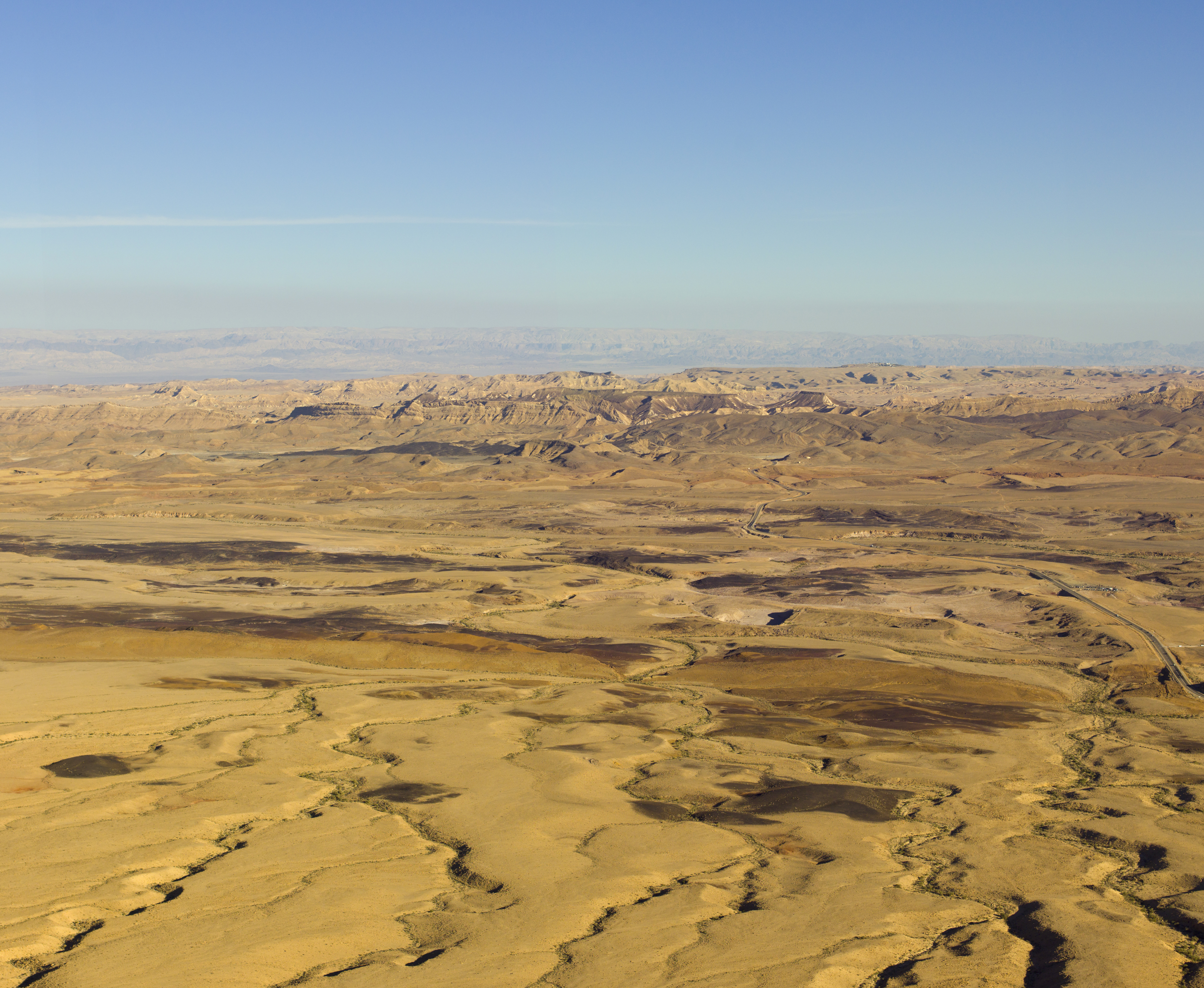 Aerial view of Makhtesh Ramon (Hebrew: מכתש רמון; lit. Ramon Crater/Makhtesh) in the Negev desert.